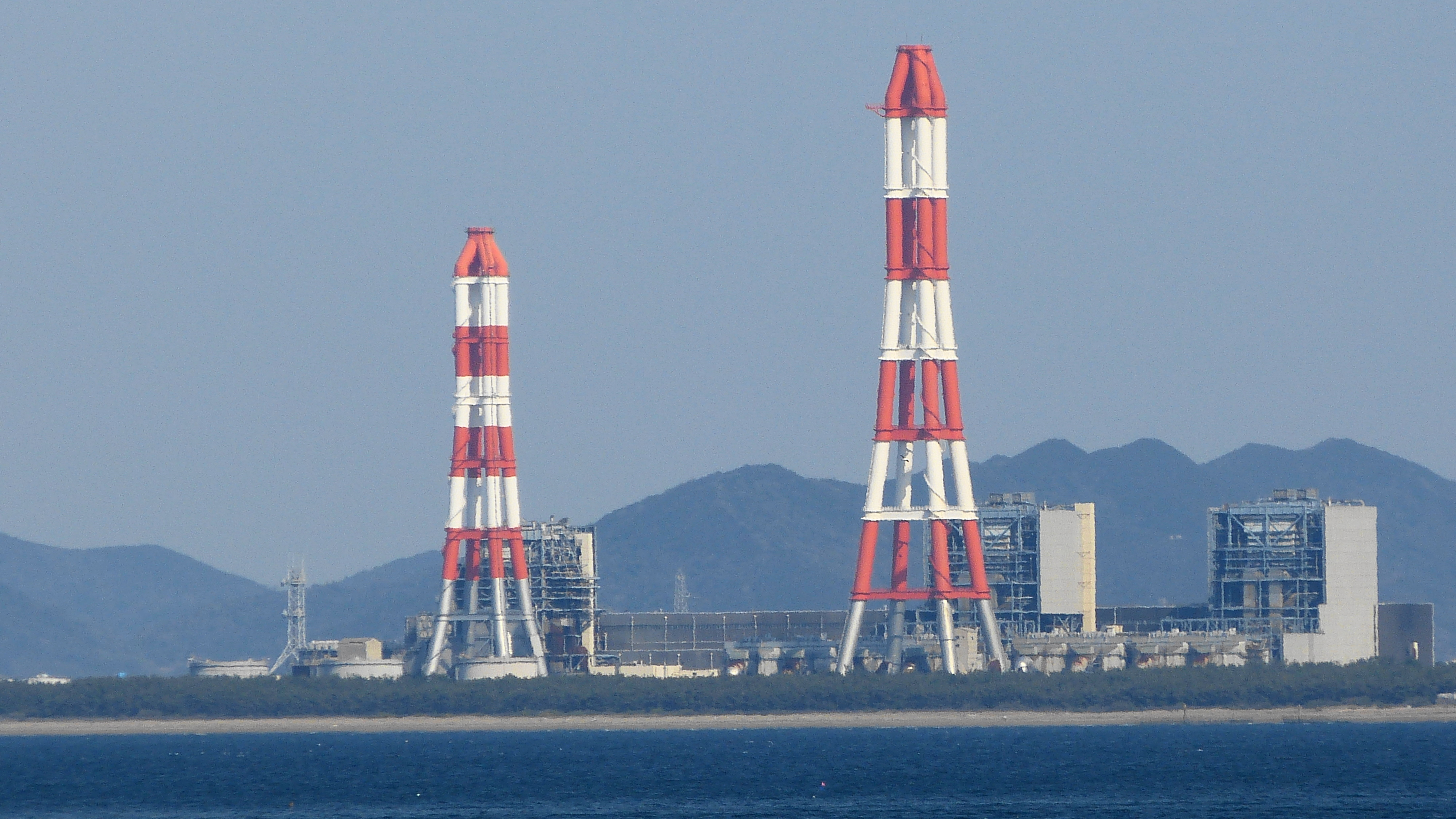 Atsumi Thermal Power Station, Aichi prefecture, Japan